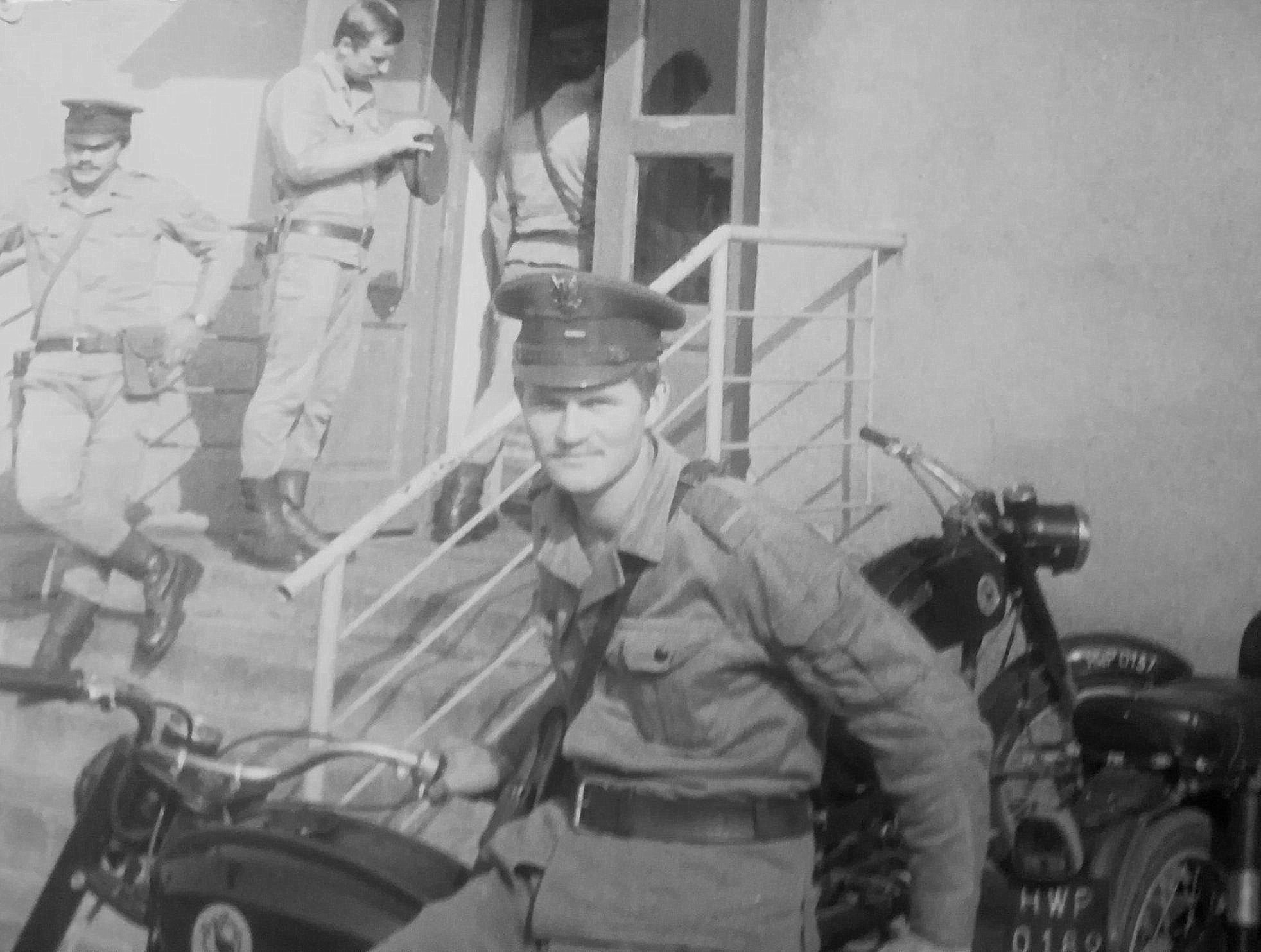 Border Protection Forces in Leszna Górna.